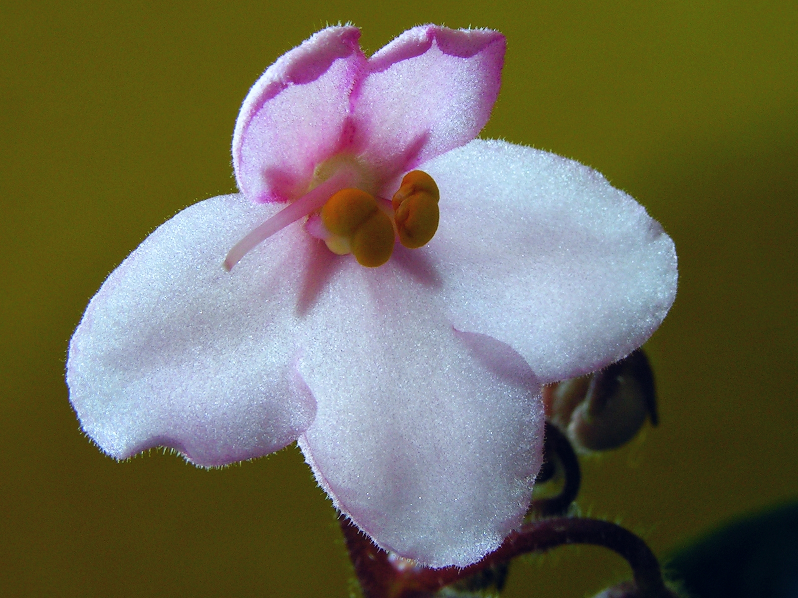 The flower of the hybrid saintpaulia